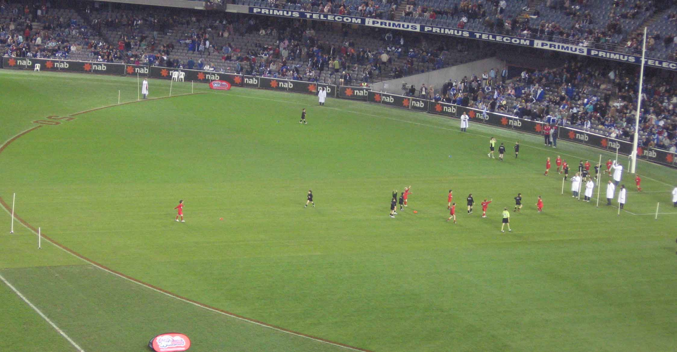 An Auskick game taking place at half-time of the match at the Telstra Dome between the Kangaroos and Carlton.